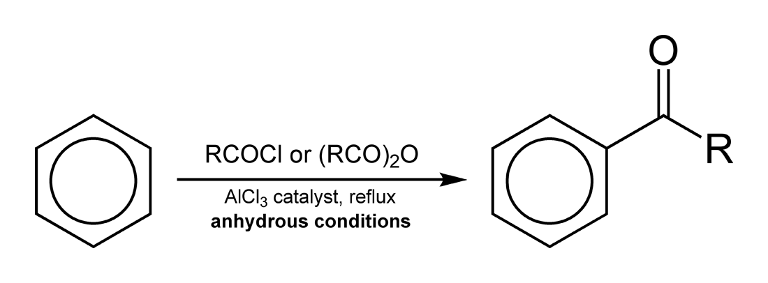 Substitution of RCOCl or (RCO)2O onto benzene, a Friedel–Crafts acylation.